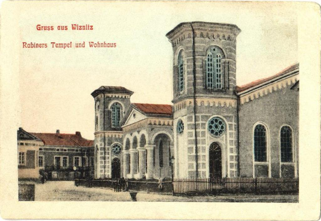 The Rabbi's Synagogue in Vizhnytsia.